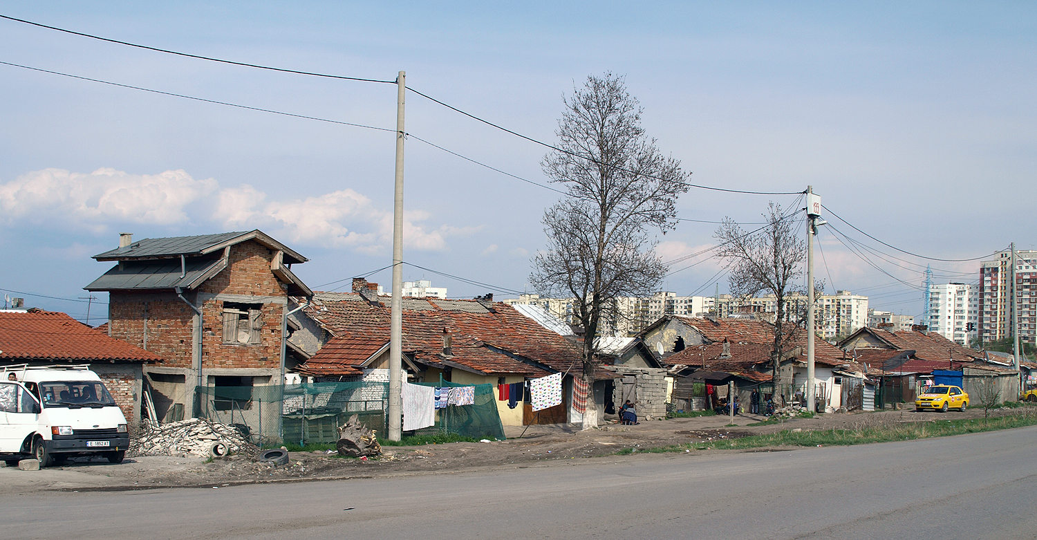 The Gypsy sistrict of Filipovtsi, Sofia Циганската част на кв. Филиповци